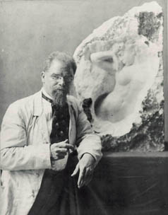 Portrait photo of Max Klinger by Nicola Perscheid.